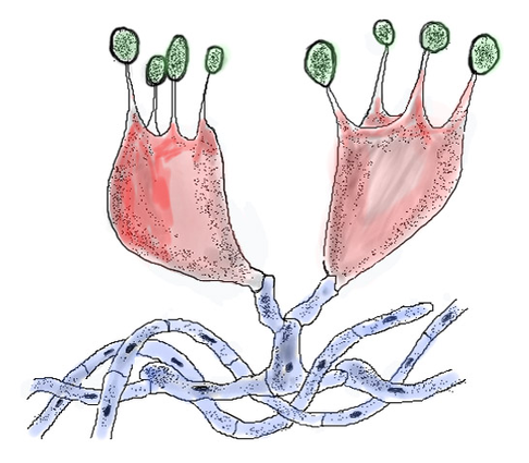 Drawing of a basidium (German: Zeichnung einer Basidie). Basidia: red, spores: green, hyphae: blue.